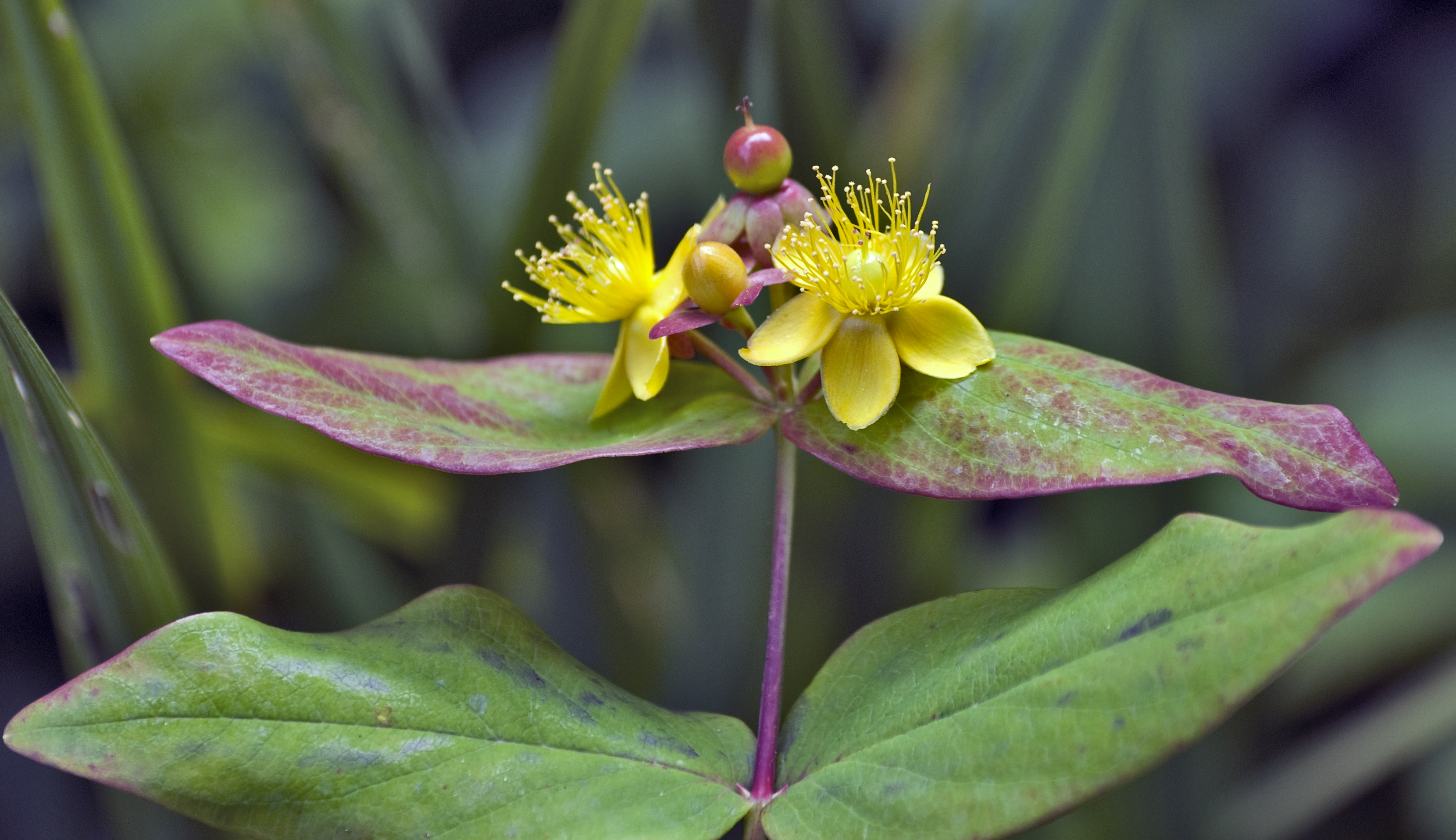 Flower at Nymans Garden (NT)